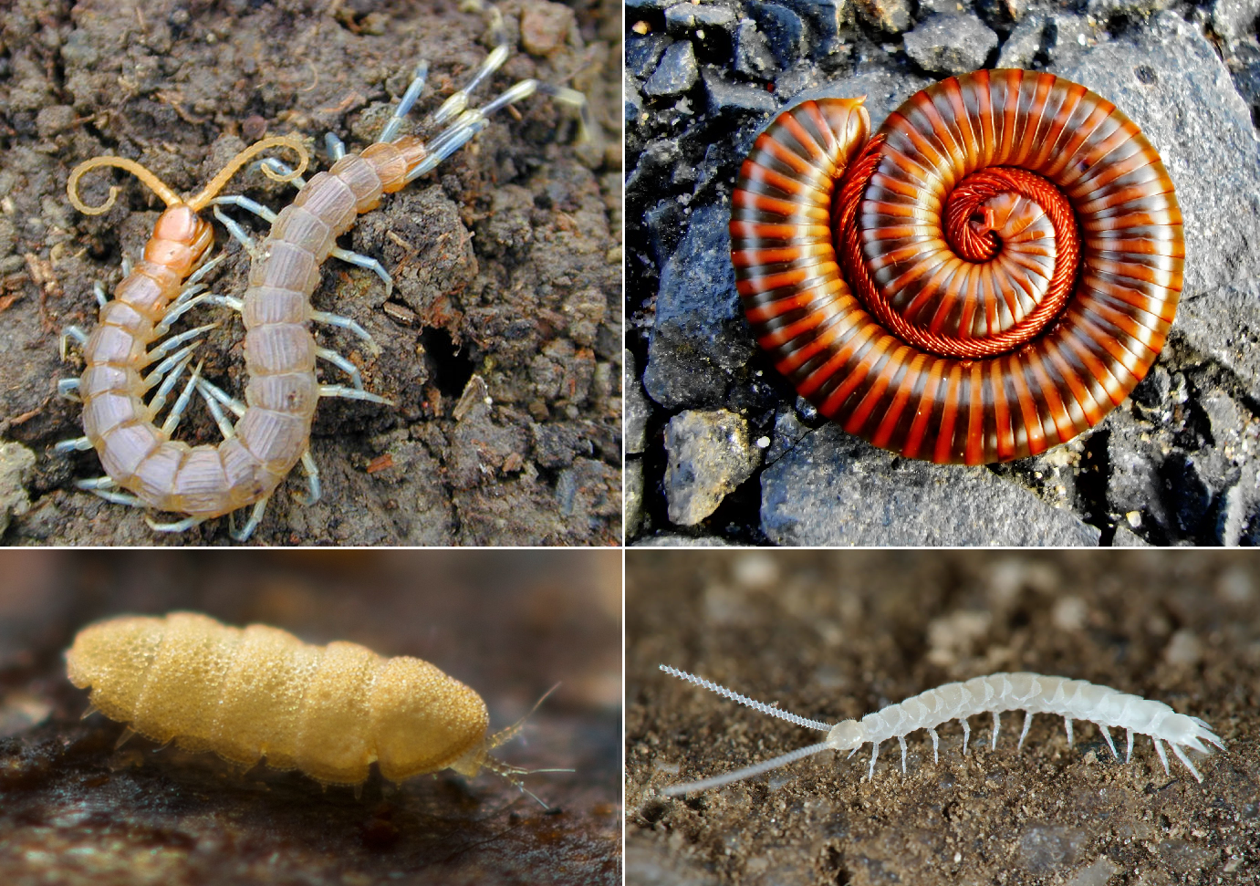 Representitives of the four classes of myriapoda. Top left: a scolopendrid centipede (class Chilopoda). Top right: an unidentified juliform millipede (class Diplopoda). Bottom left: a pauropod (class Pauropoda) of the family Eurypauropodidae. Bottom right: an unidentified symphylan (class Symphyla).